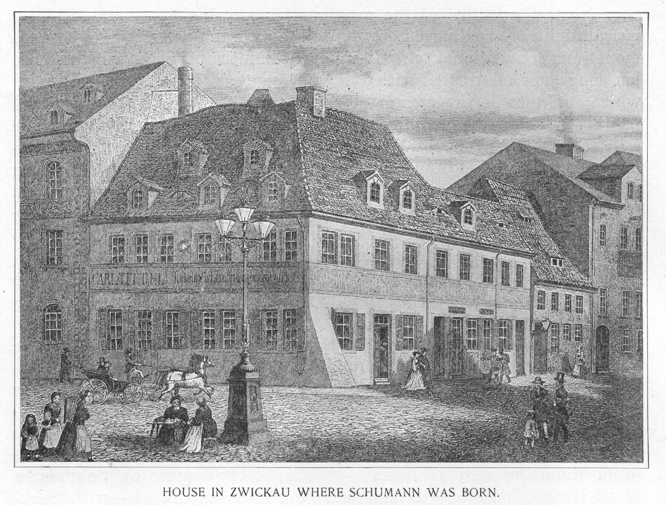 Source: Modern Music & Musicians, University Society, New York, 1918